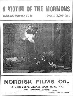 From the silent movie: "A Victim of the Mormons" (DK: 1911 , US: 1912). Marketing pamphlet